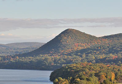 A closeup of the eastern Hudson Highlands, especially Sugarloaf Hill, as viewed from the Appalachian Trail walking path of the Bear Mountain Bridge in the Hudson Valley of New York, USA.